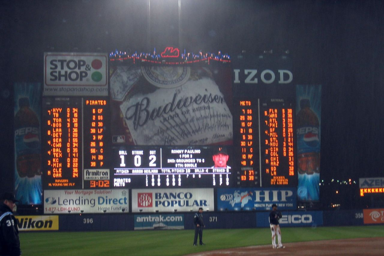 Shea Stadium